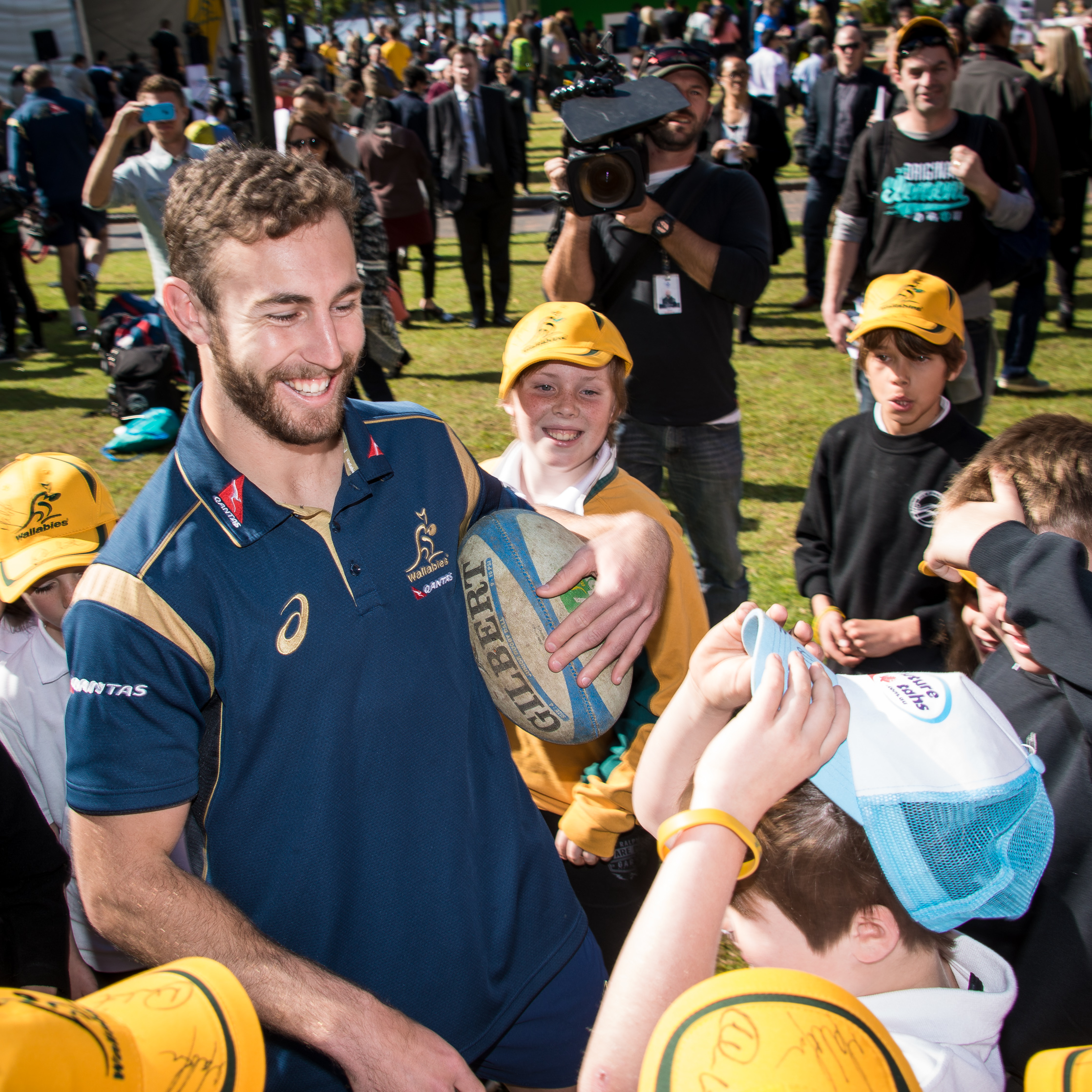 Wallaby Nic White and fans